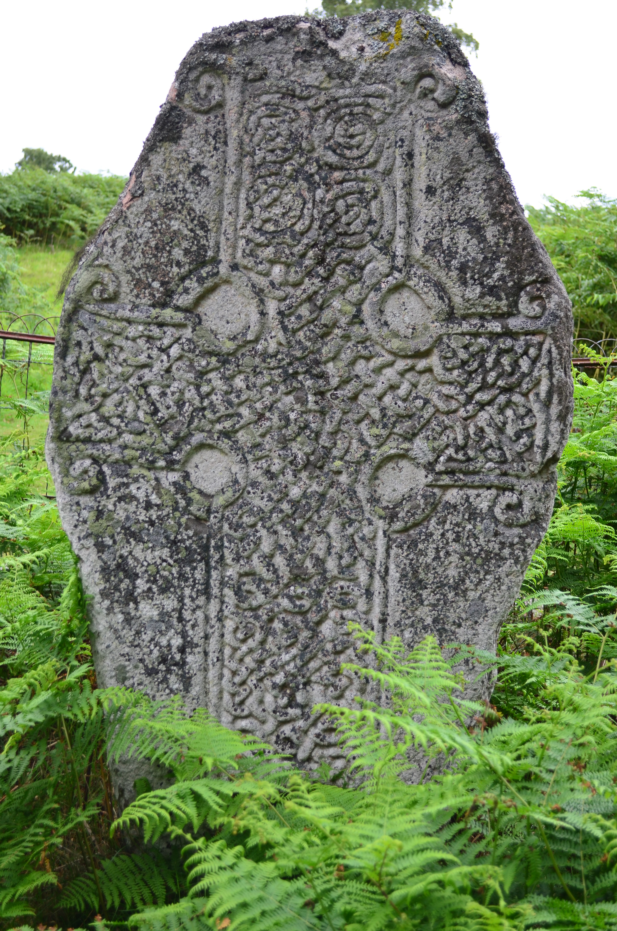 Celtic cross at Lock Kinord, northern shore.